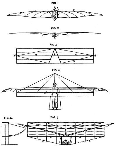 Fig. 1: Top view of a gliding machine illustrating the total surface area required to sustain aloft a human of average weight (note the wing's high aspect-ratio). Fig. 2: Rear view of the same design, showing the prone position which Wenham suggested for the gliding machine's operator. Fig. 3: Front view of a multi-winged gliding machine trussed with "thin bands of iron" (c) and vertical wing struts (d). Fig. 4: A more refined design, incorporating small wing-like propellers on each end, operated by motion of the operator's feet and arranged so that the propellers could be operated more on one side or the other, thus enabling the machine to turn by generating more lift on one side than one the other, or together. Fig. 5: An even more refined design, with wing-like propellers at the ends of long arms, a cellular wing structure with vertical supports (struts), wing trussing, and a horizontal position for the operator. Fig. 6: A side view of the machine depicted in Figure 5.